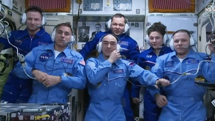 The new Expedition 63 crew joined the Expedition 62 crew today a board the International Space Station. (Front row from left) NASA astronaut Chris Cassidy and Roscosmos cosmonauts Anatoly Ivanishin and Ivan Vagner. (Back row from left) NASA astronaut Andrew Morgan, Roscosmos cosmonaut Oleg Skripochka and NASA astronaut Jessica Meir.